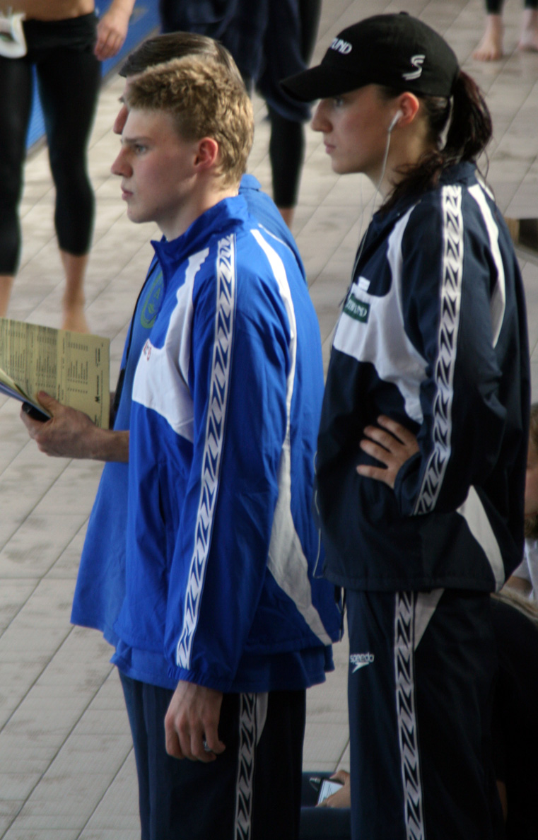 Austrian swimmers Mirna Jukic and Dinko Jukic at the 19th International Stroeck Austria-Meeting 2008 at the Wiener Stadthalle.